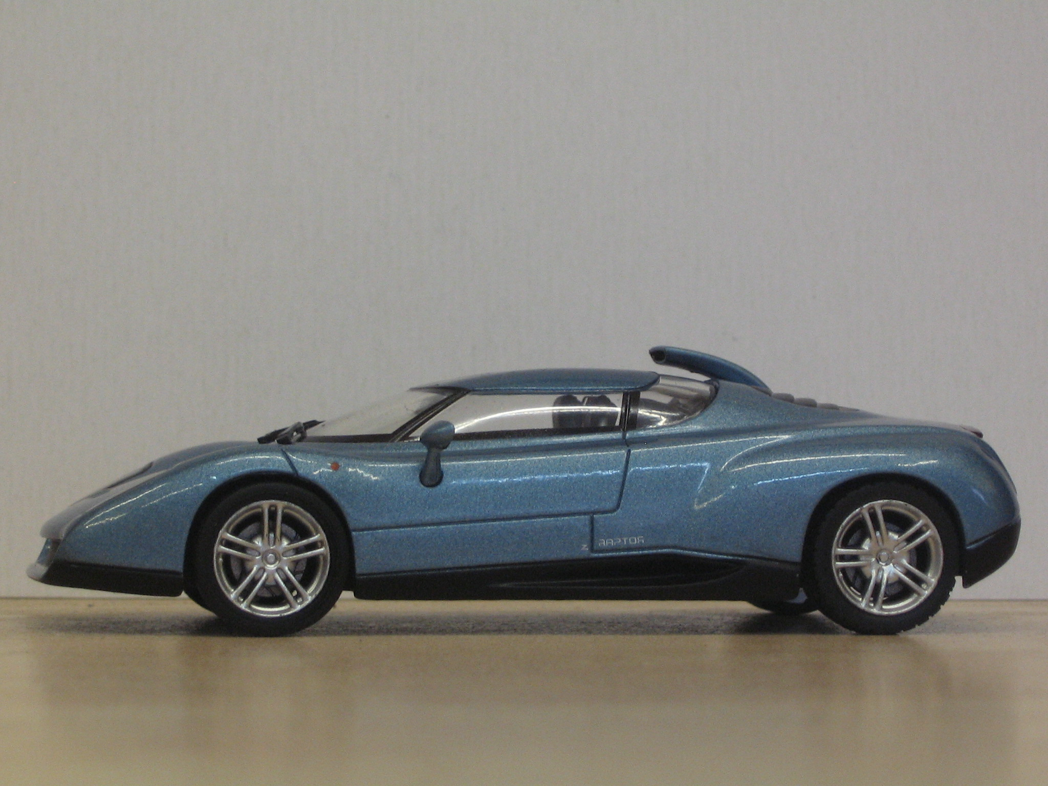 Original picure captured with photocamera.